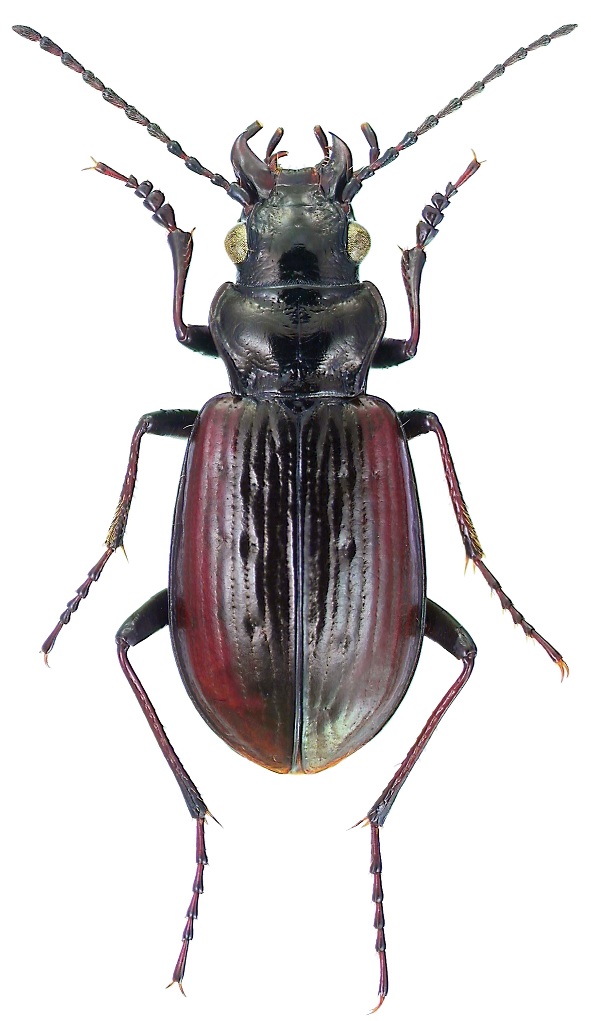 Pelophila borealis (Paykull). This pelophiline is one of the 97 species-group taxa which are Holarctic and found naturally in both the Palaearctic and Nearctic Regions. Most of these species are confined to the arctic, subarctic or boreal regions but a few are found mainly in the temperate regions such as Dyschirius politus. Most biogeographers agree that these species have spread between the two continents through Beringia during the Quaternary period.